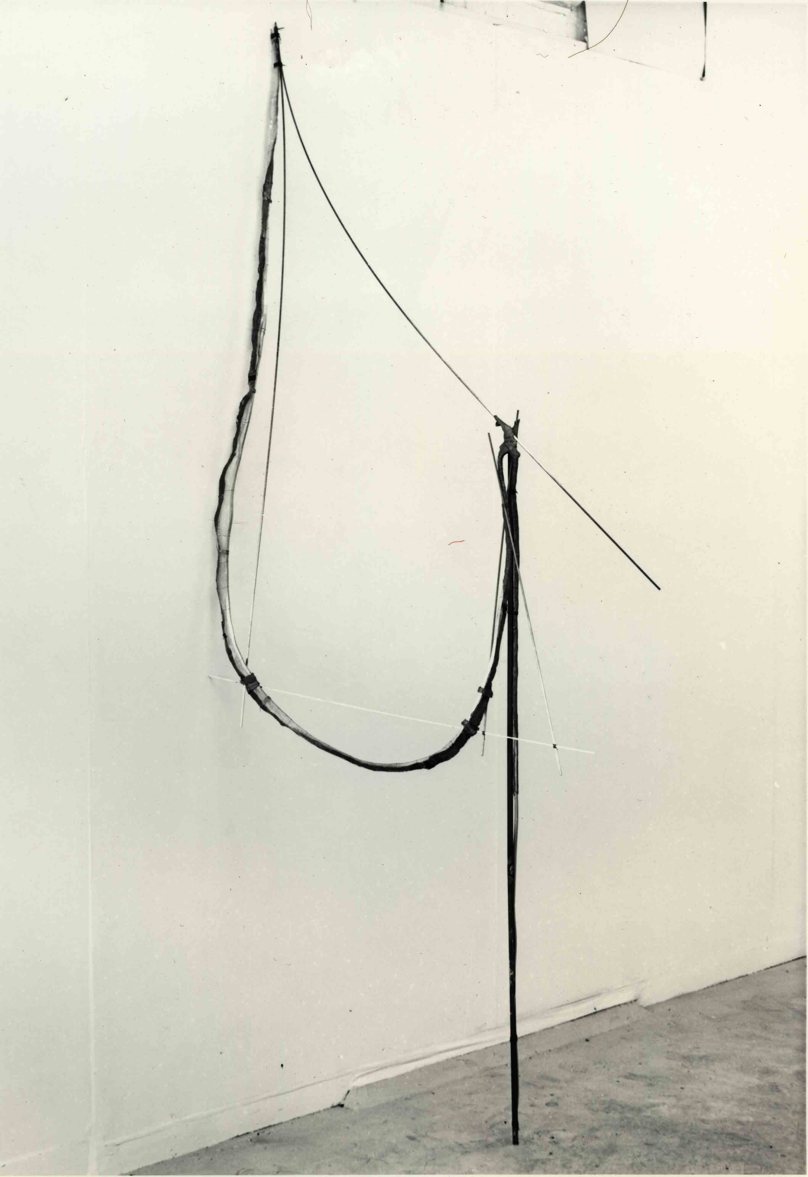 Metal and wire sculpture